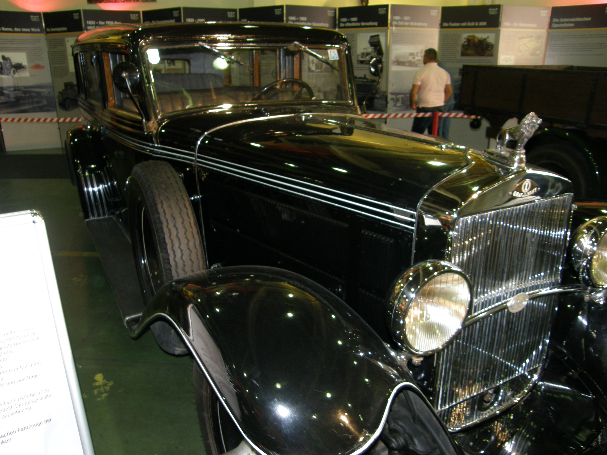 The Gräf & Stift SP8 at the 100-year-anniversary in Vienna